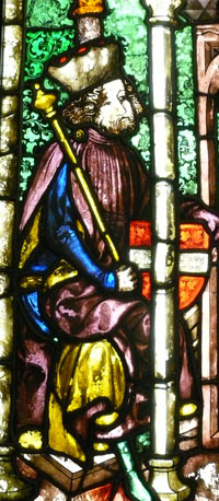 Leopold I. of Habsburg